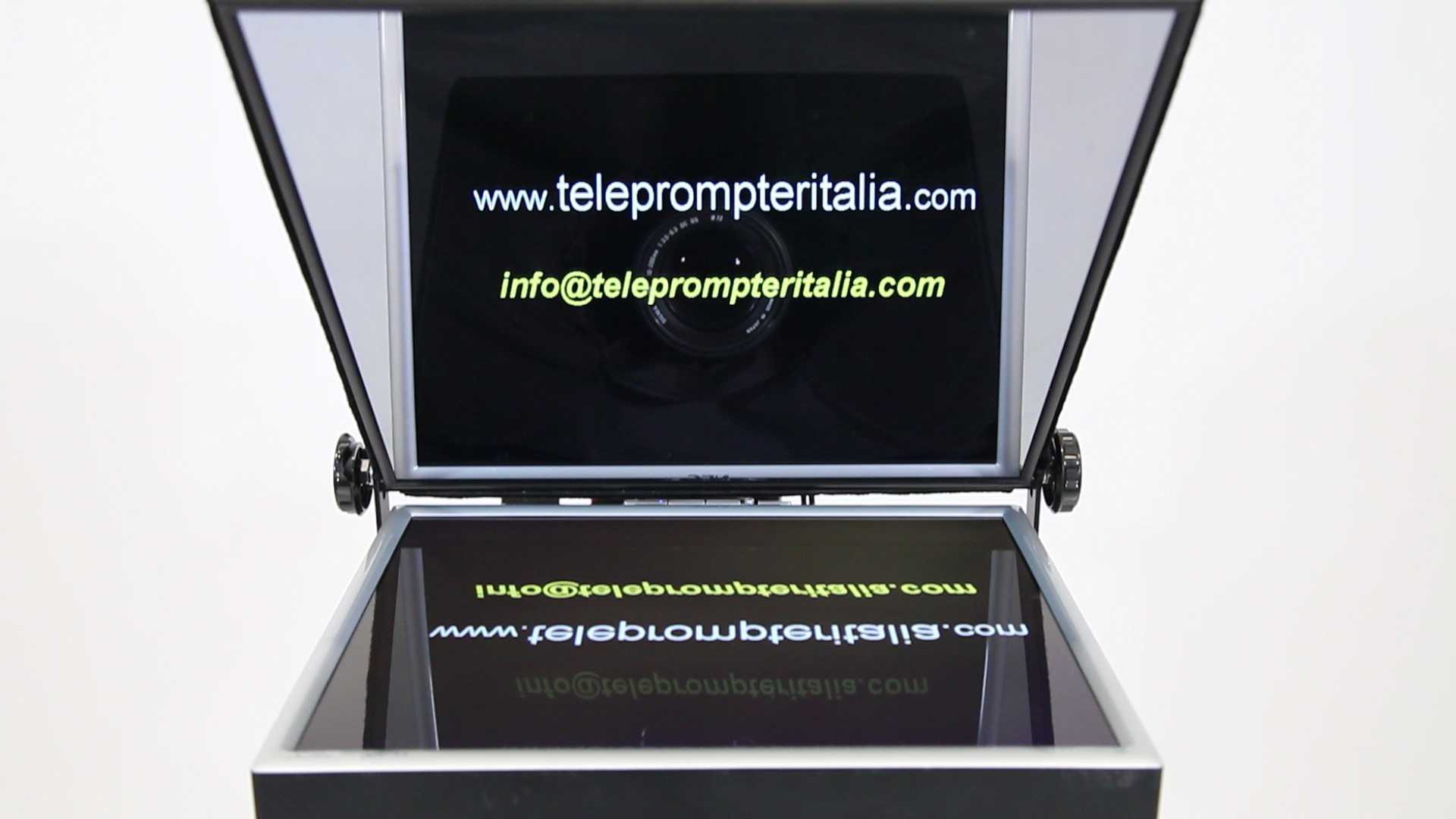 Teleprompter con specchio ultrariflettente brevettato.